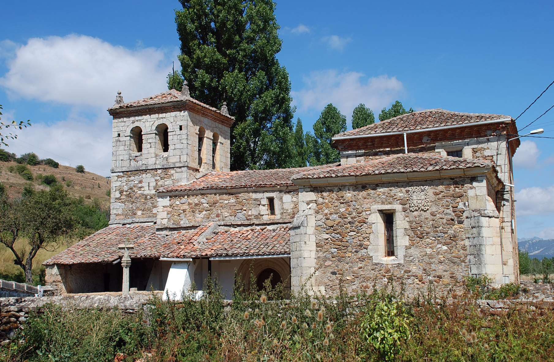 Church of Santa Barbara in Barajores de la Peña (Palencia, Spain)